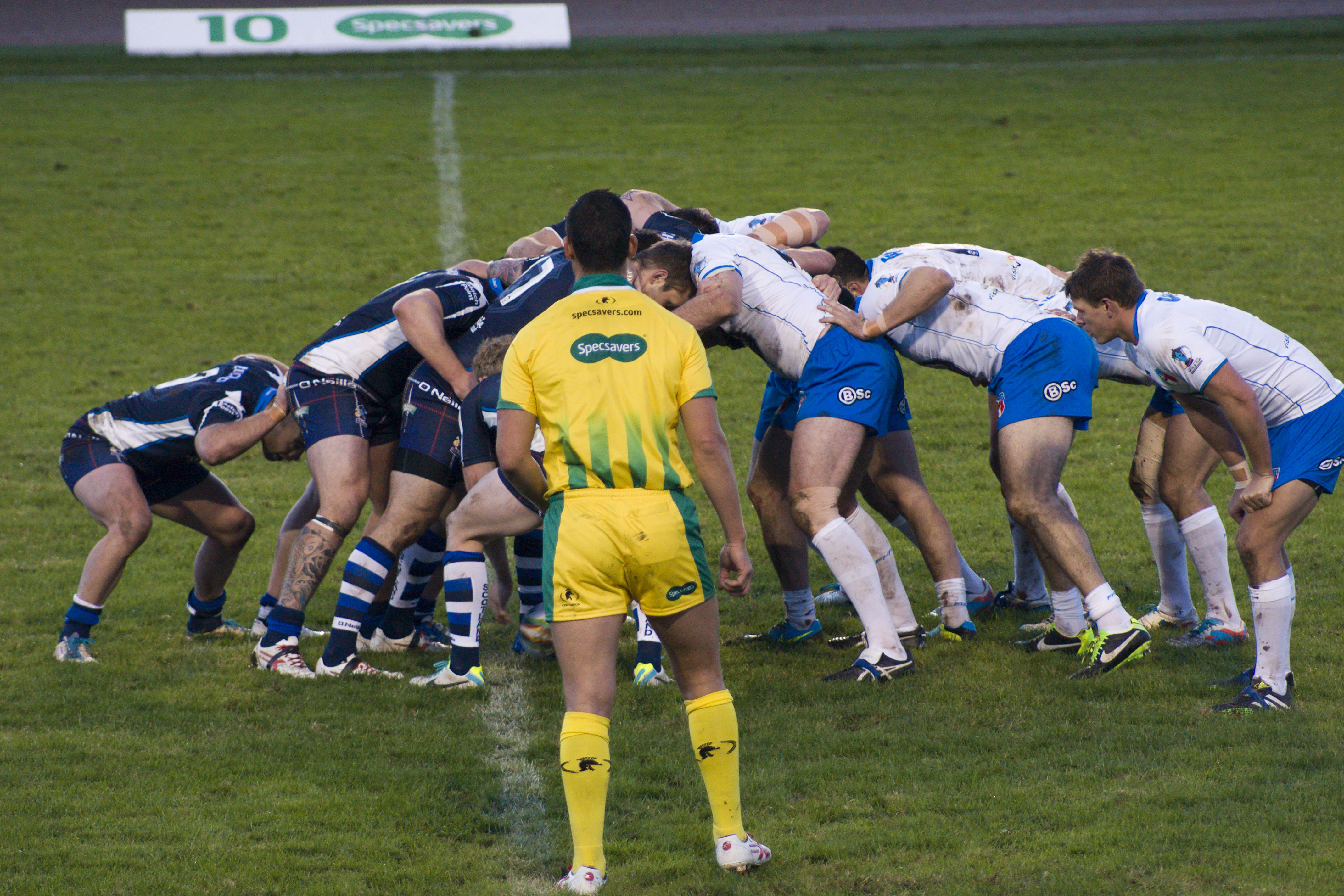 2013 Rugby League World Cup match between Scotland and Italy at Derwent Park in Workington.